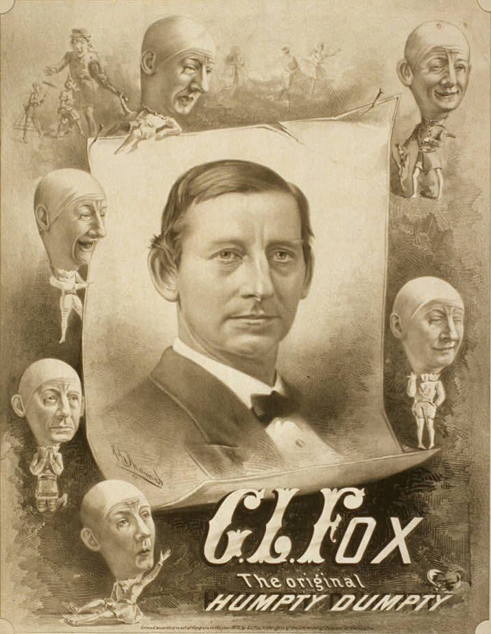 George L. Fox (1825-77) was an American comedian/mime